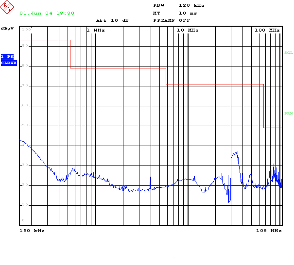 Example diagram of an electromagnetic interference test. Emissions had to be tested in frequency range from 150 kHz to 108 MHz. All measured values (blue line) are beneath the limit line (red line). Test result: OK